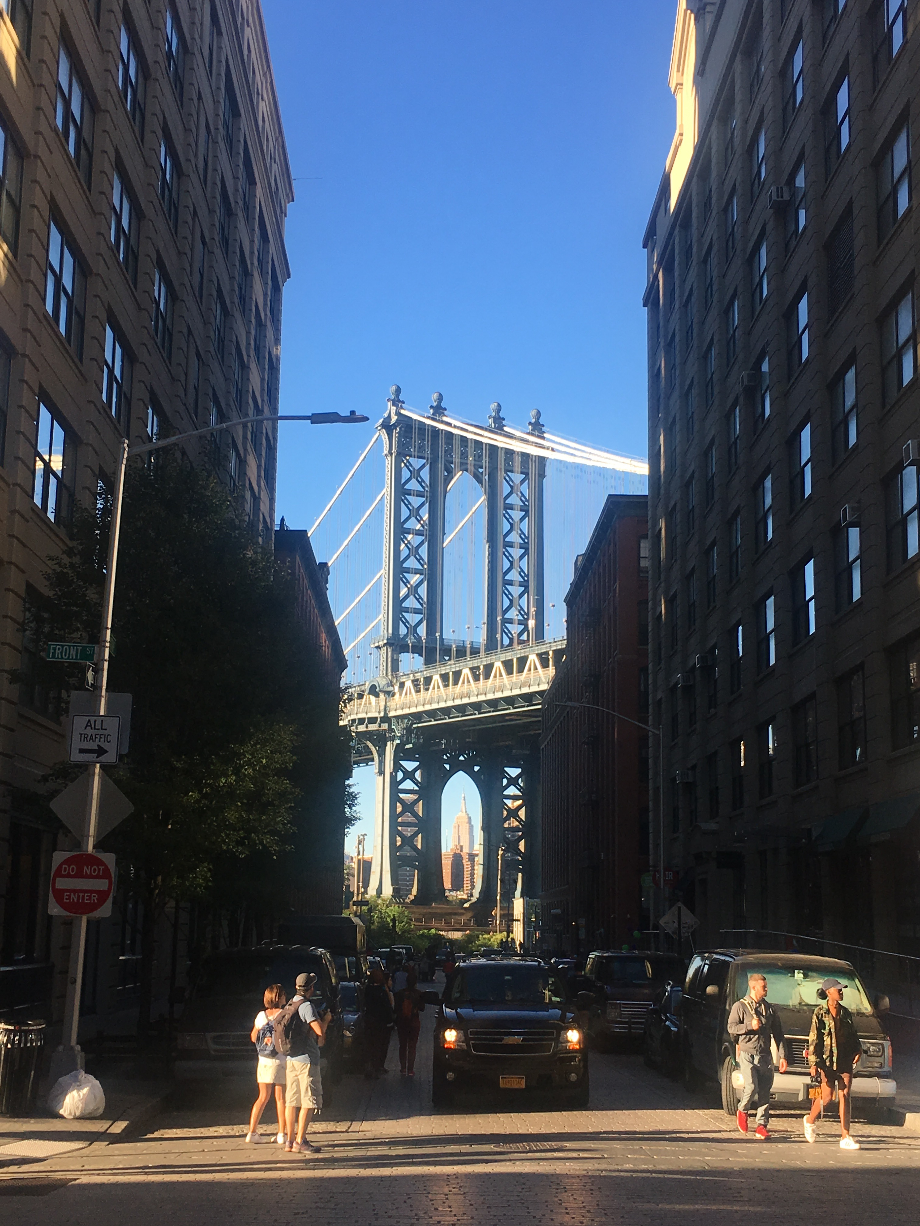 This photograph is a Brooklyn Bridge. by Hyncheol_Kang